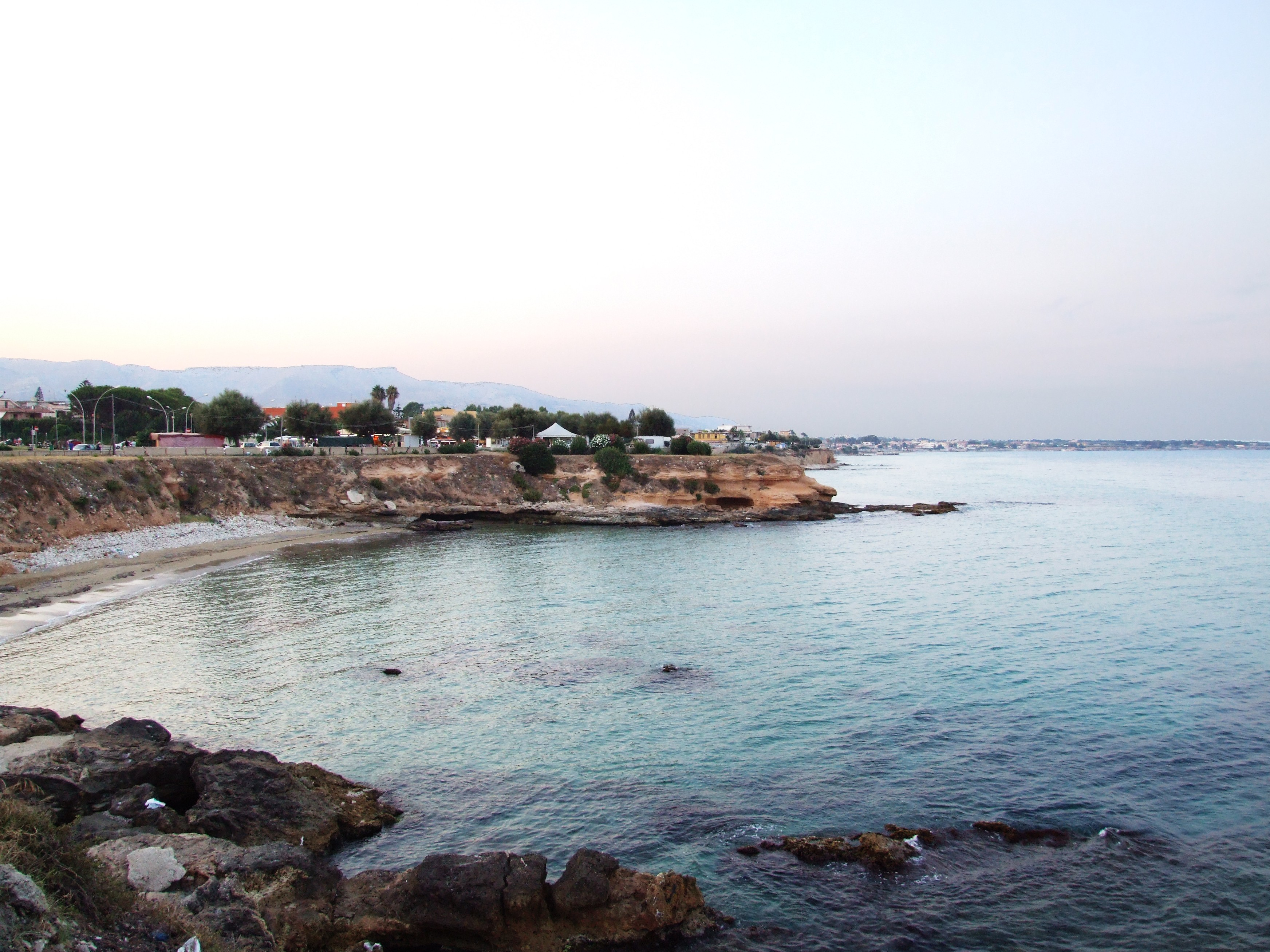 Avola, Sicily